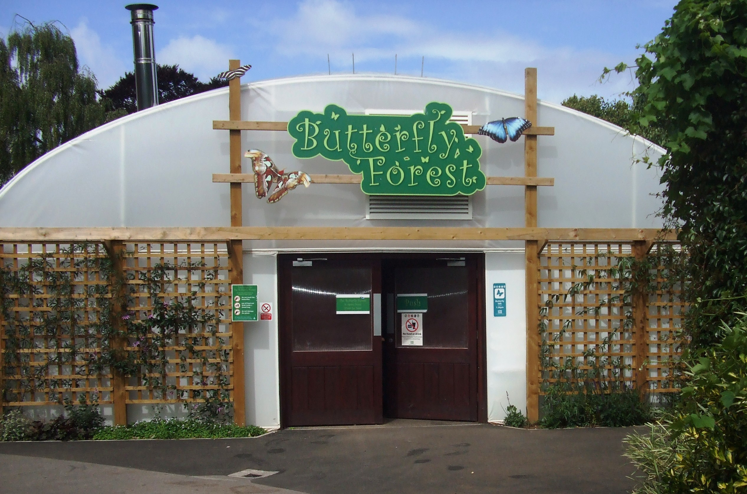 Butterfly Forest at Bristol Zoo